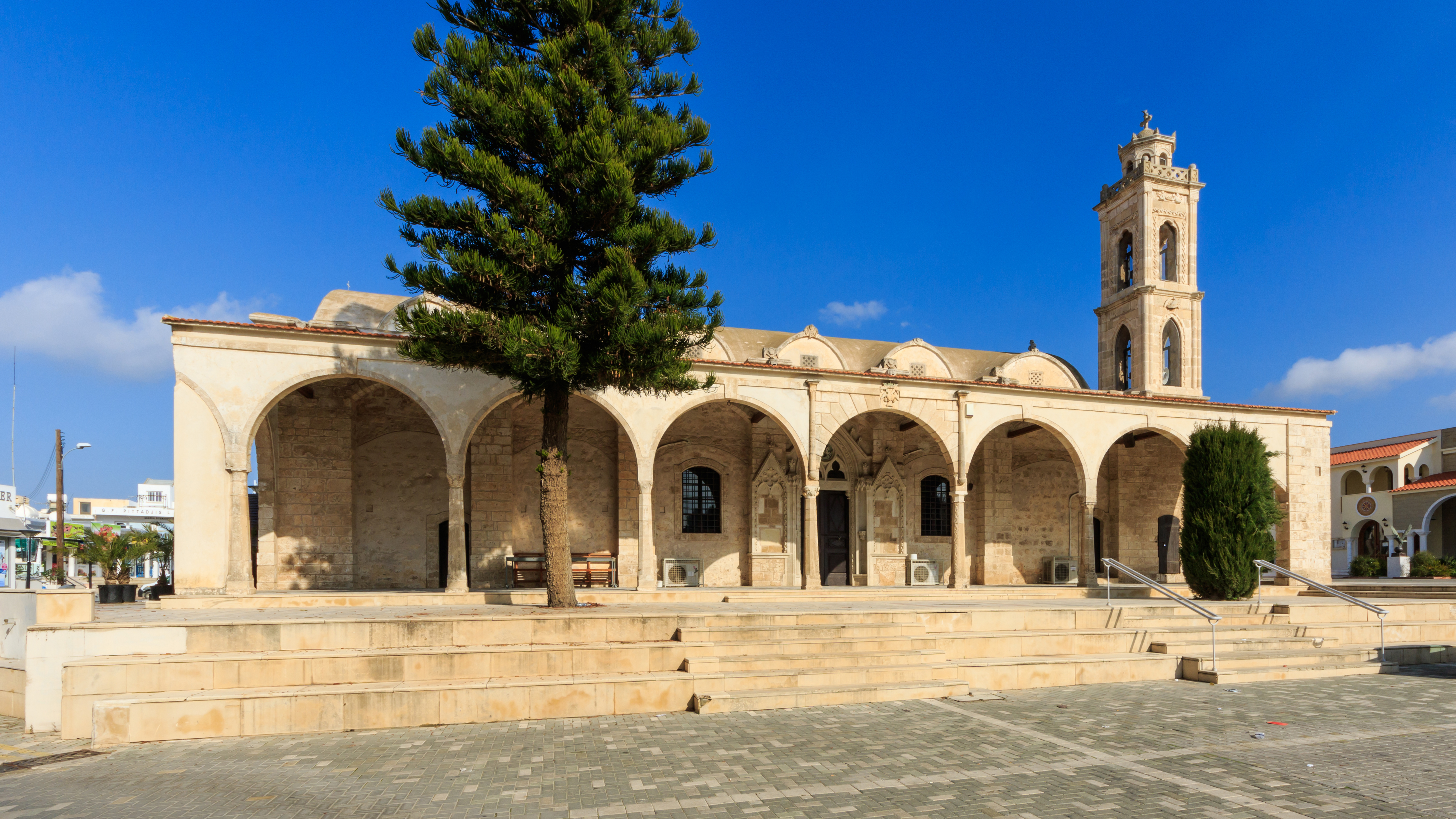 Old church of St. George in Paralimni, Cyprus